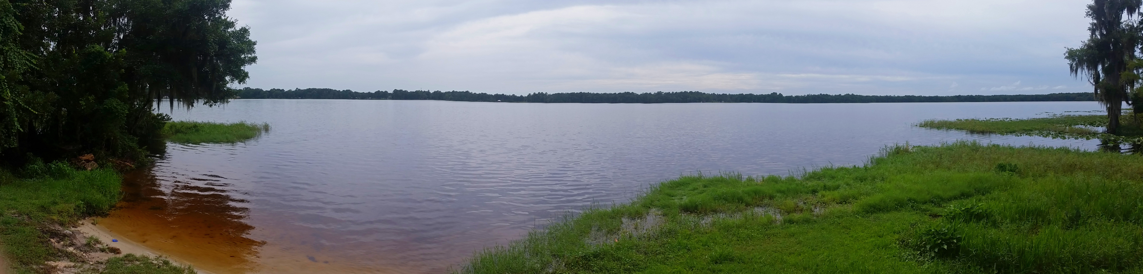 A panoramic shot of Lake Alto to the east of Waldo, Florida. Photo was taken from the west shore at the boat ramp.